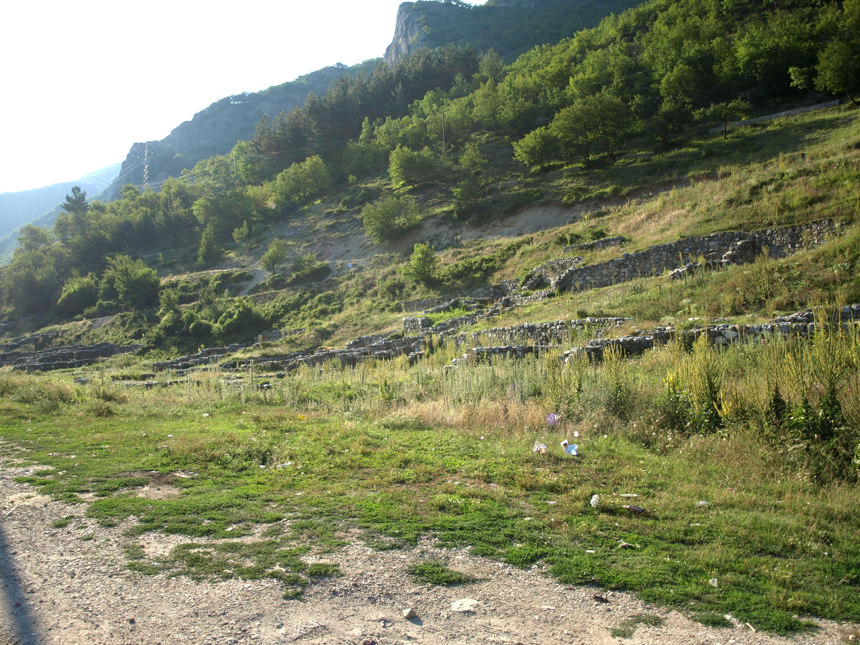 Remnants of Stari Ras in the Raška valley near Novi Pazar in Serbia